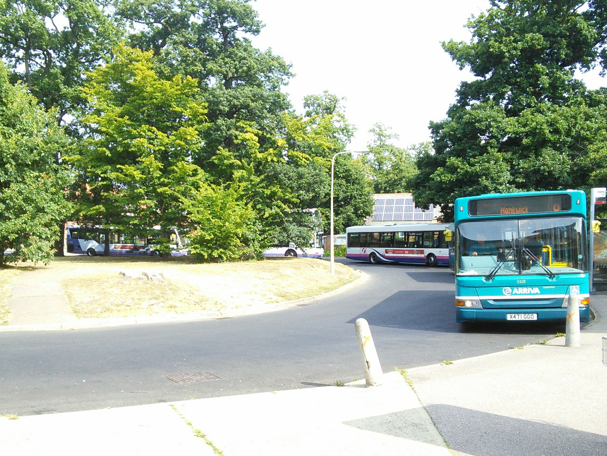 Arriva Colchester Dennis Dart at Highwoods Square, Colchester along with competitor First Essex's Wright Solar, Plaxton President and Wright Streelite.